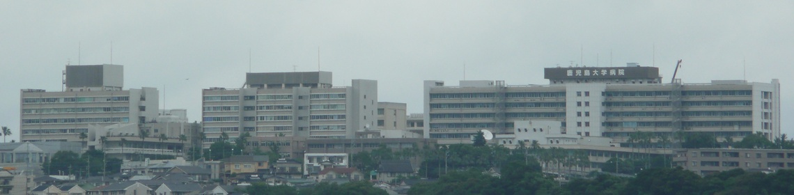 Kagoshima University Medical And Dental Hospital outward from "AEON Kagoshima SC" (Kagoshima, Japan)